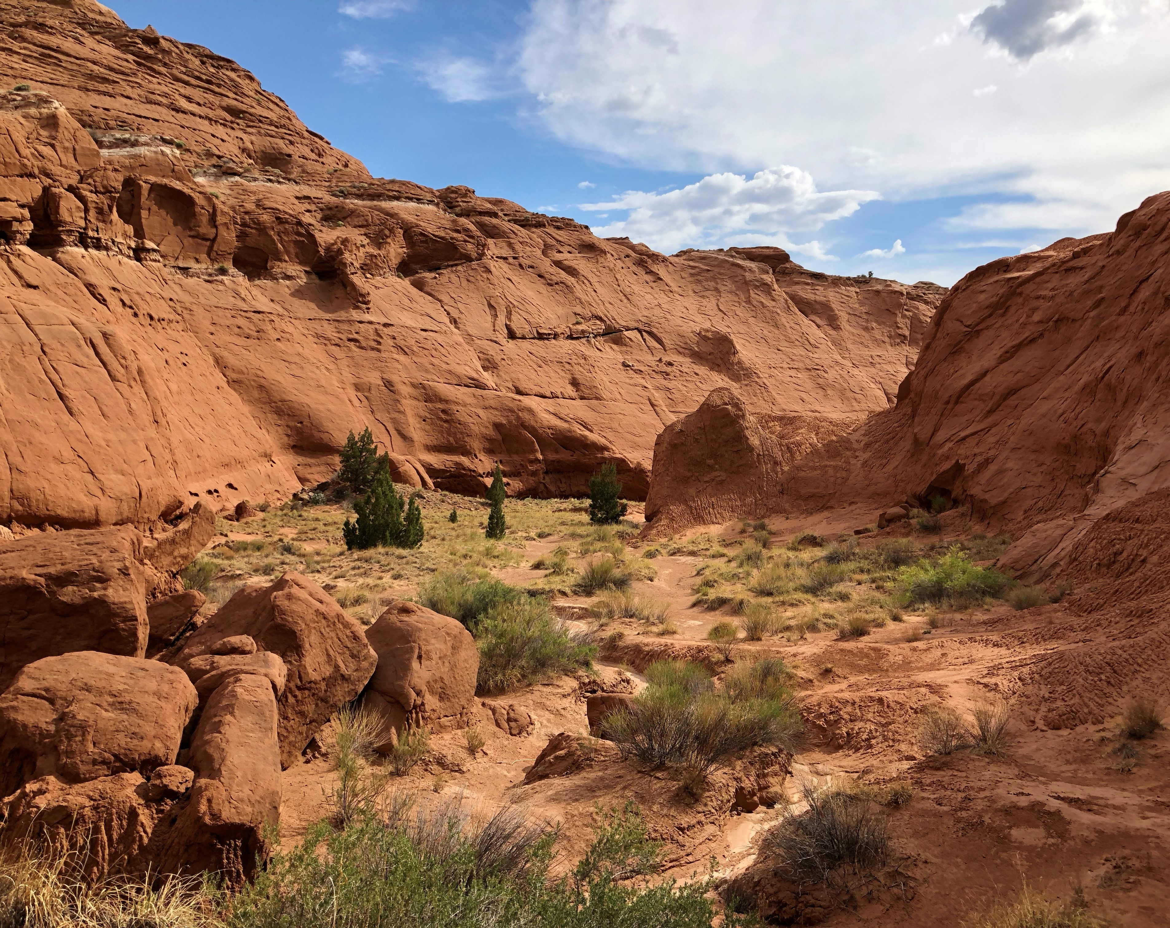 Looking out the canyon